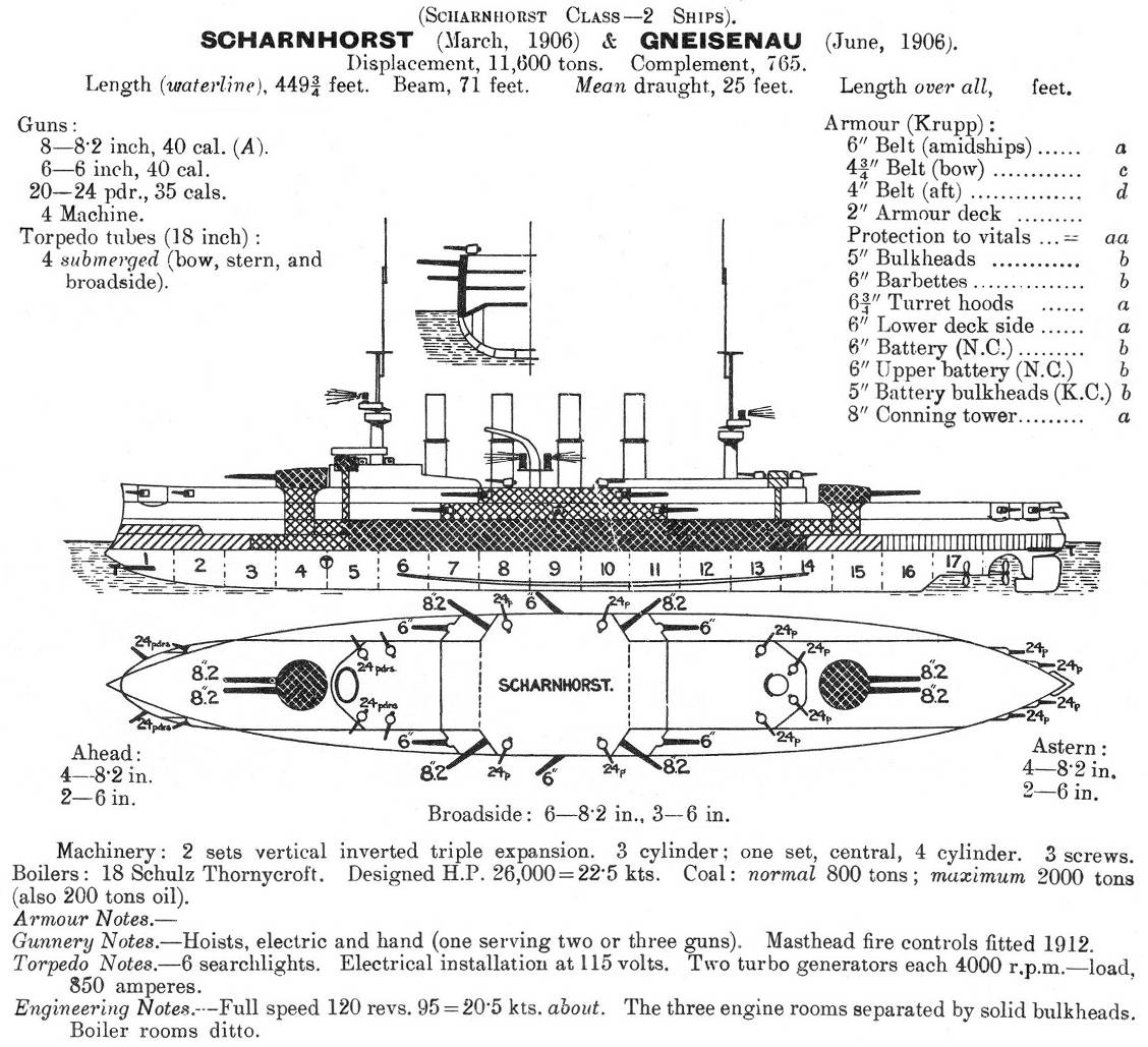 Diagrams depicting left elevation and deck plan of German Scharnhorst class armored cruiser. Measurements are given in feet and inches.